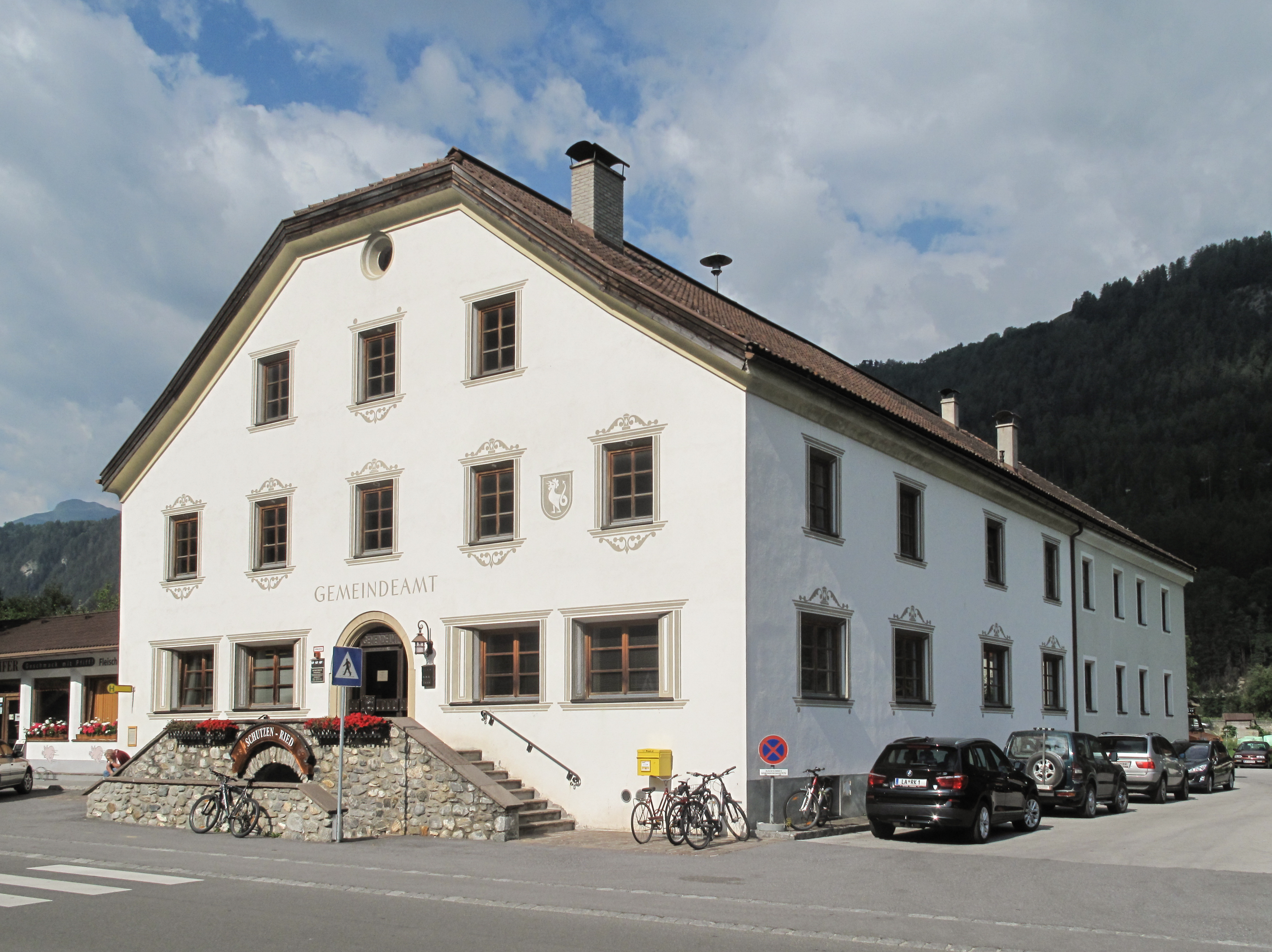 Ried im Oberinntal, townhall